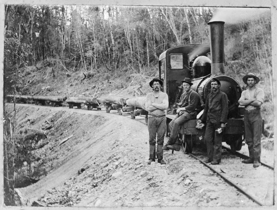 Four timber workers by a Johnson steam locomotive and its load of logs at Bell Hill mill, on the West Coast. Photograph taken circa 1910 by an unidentified photographer. Originally identified as Ruru Mill. Since identified as Bell Hill Mill. Note on back of file print reads: "E Nyberg" The Johnson locomotive was built in Invercargill in 1906. Timber workers by a Johnson steam locomotive, West Coast ATLIB 461129.